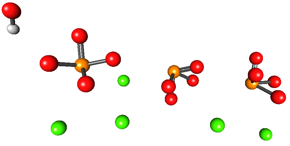 3d visualization of hydroxyapatite, made using iqmol and gimp. Structure visualized from crystallography image.